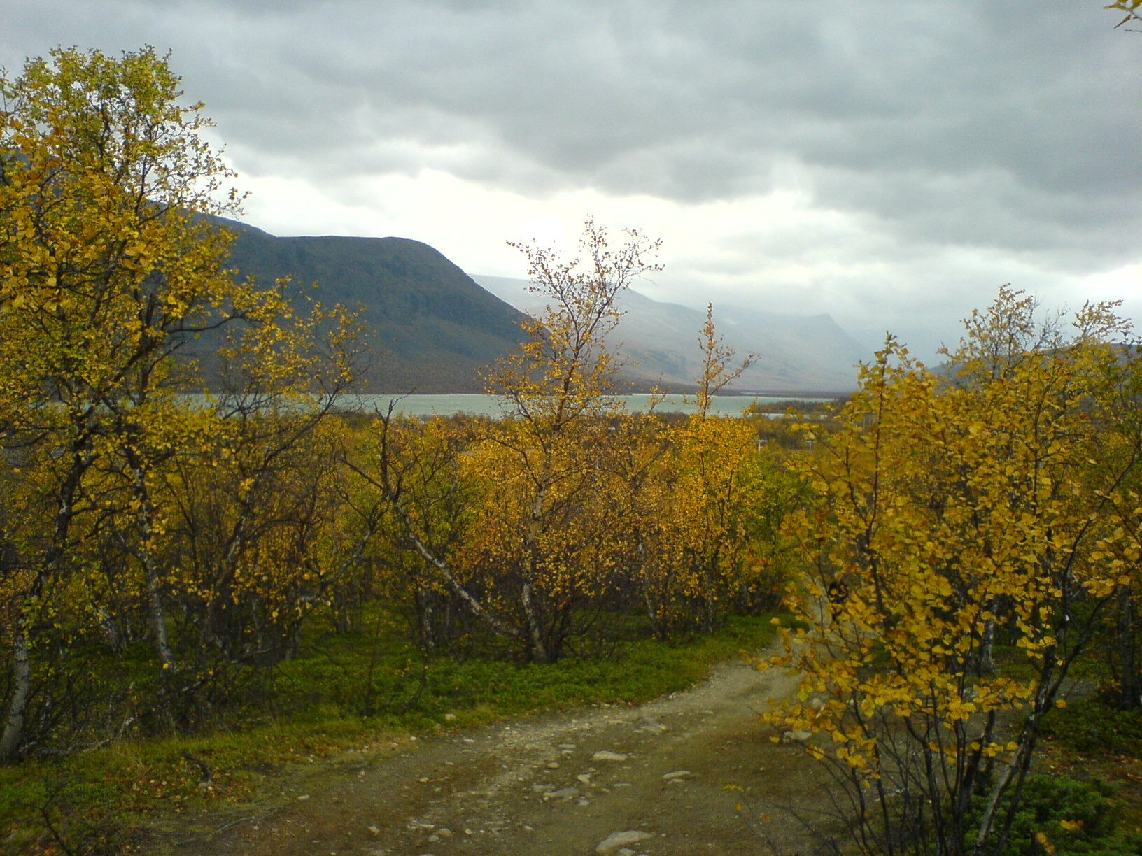 View towards Lake Laddjujavri near Kebnekaise, Sweden, in autumn colours.